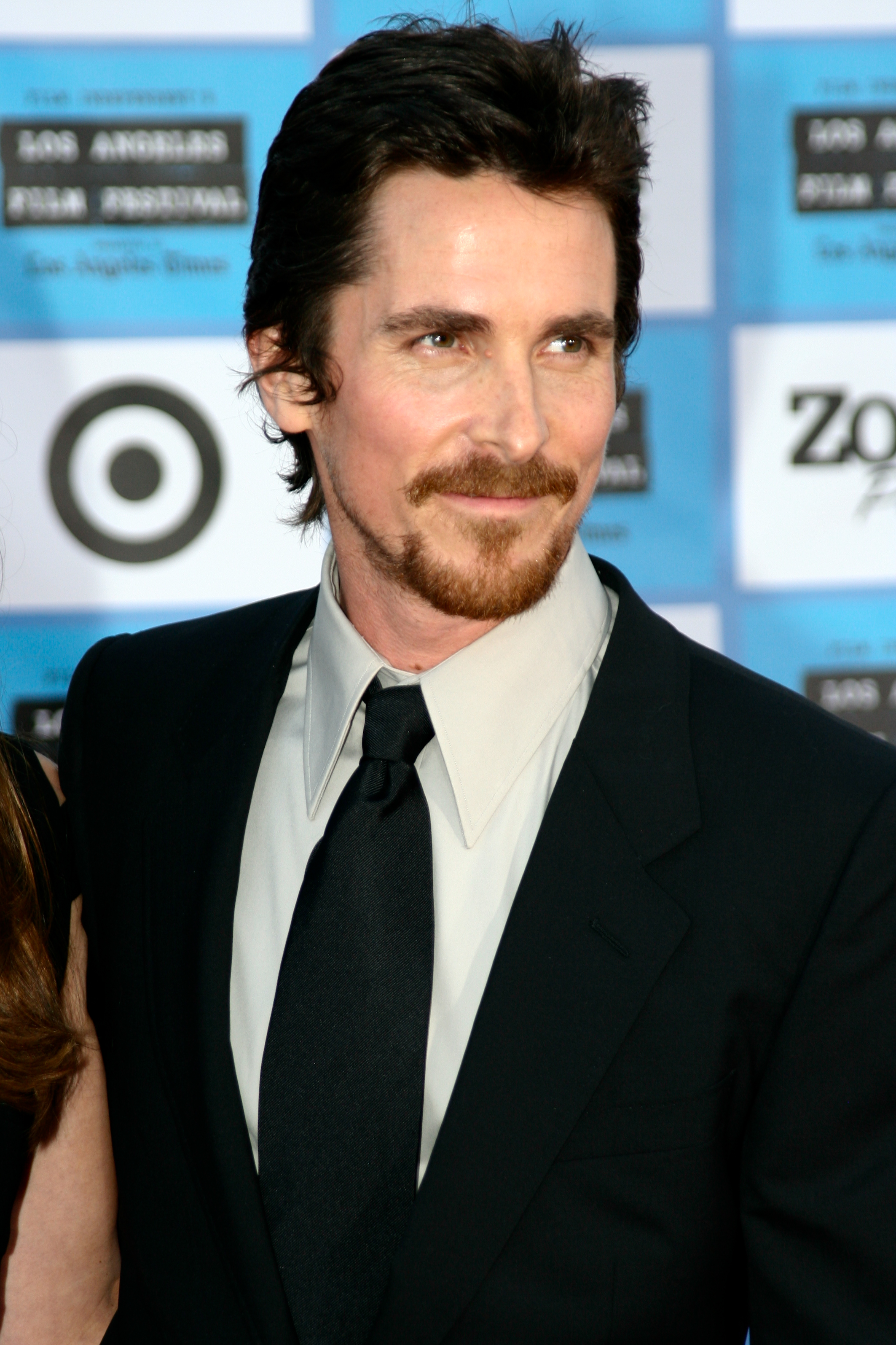 Christian Bale at the red carpet film premiere of Public Enemies at the Mann Village Westwood during the 2009 Los Angeles Film Festival.